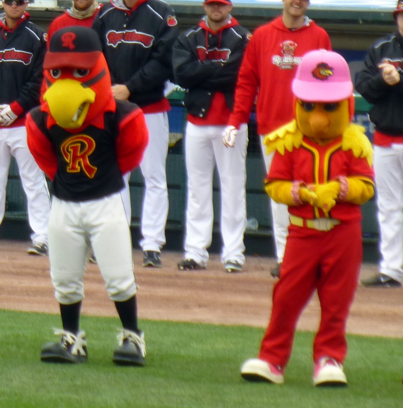 Red Wings players and field staff wear commemorative hats in honor of fallen Rochester Police Department Officer Daryl Pierson. Game-used hats autographed and auctioned off during the game with 100 percent of the proceeds benefiting Rochester Police Foundation which will benefit Officer Pierson's wife, Amy, and children; Christian and Charity throwing out the ceremonial first pitch here. 2015 Rochester Red Wings Home Opener against the Buffalo Bisons. Frontier Field, 4/11/15